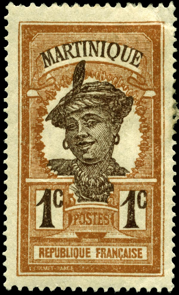 Martinique 1c stamp of 1908